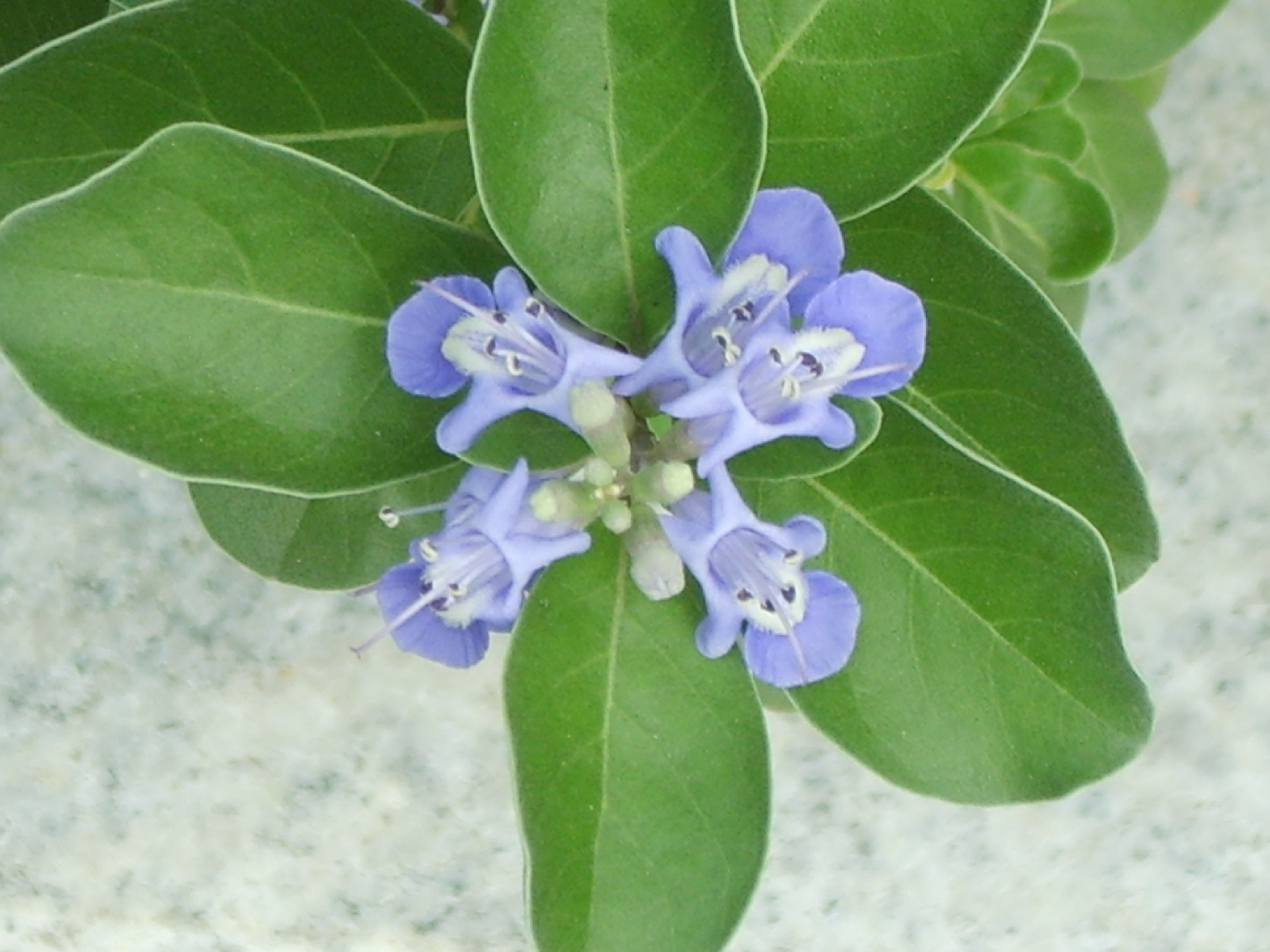 Vitex rotundifolia in Incheon, Korea